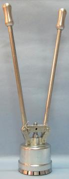 2inch drum cap-seal crimping tool used on steel and plastic drums.